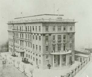 中文（中国大陆）: 商务印书馆的东方图书馆，毁于1932年的一二八事变的日军战火 Oriental Library, Shanghai